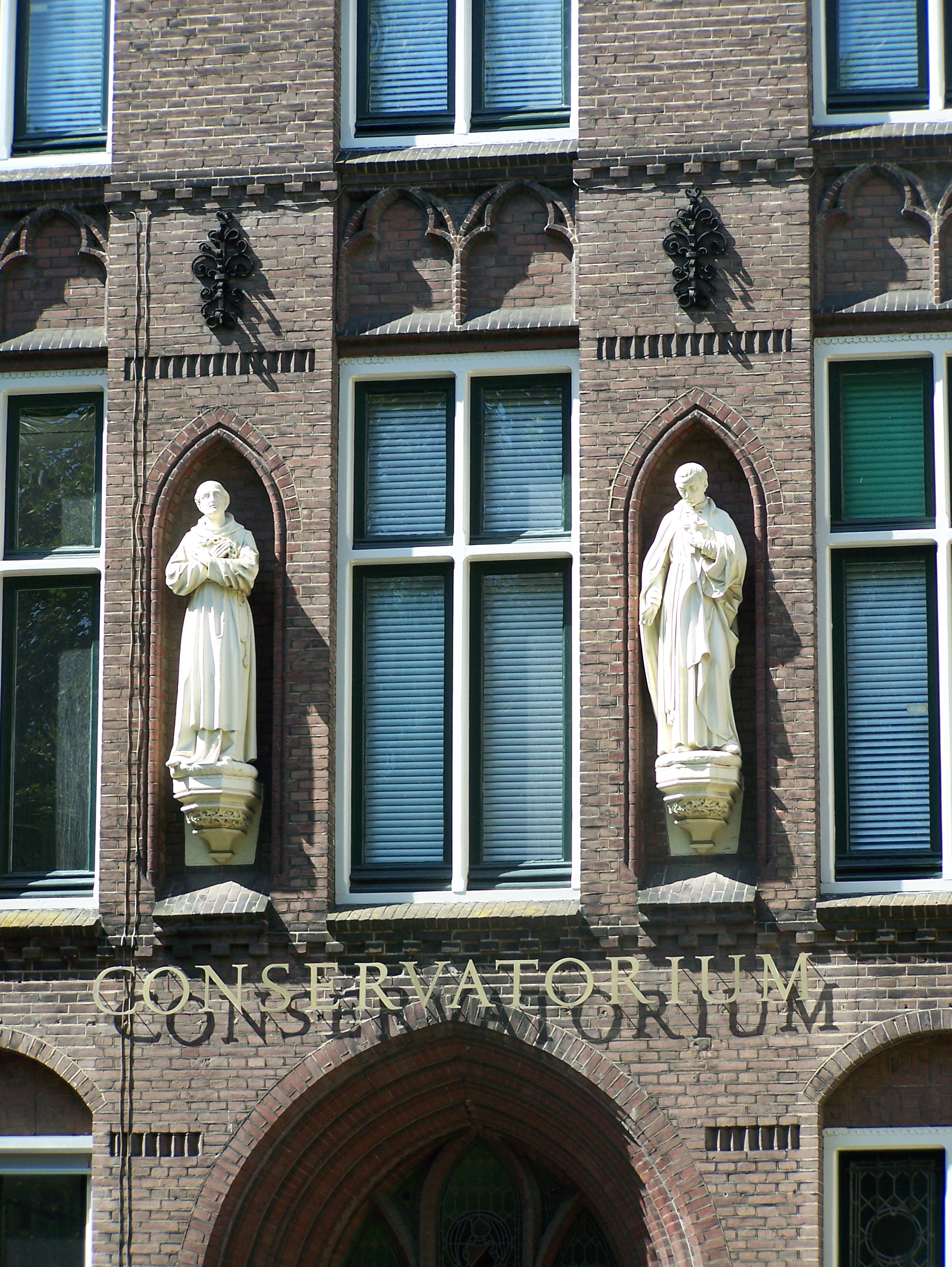 A detail of the sculptures above the entrance of the former hospital building "St. Johannes de Deo", by architect J. van Kesteren in 1896. Since 1971 it's part of the conservatorium Utrecht. It's situated at Mariaplaats. Sculptures where made by Friedrich Wilhelm Mengelberg. The Stained glass windows where designed by Heinrich Geuer. The statue on the left is representing John of God, on the right is John of Avila